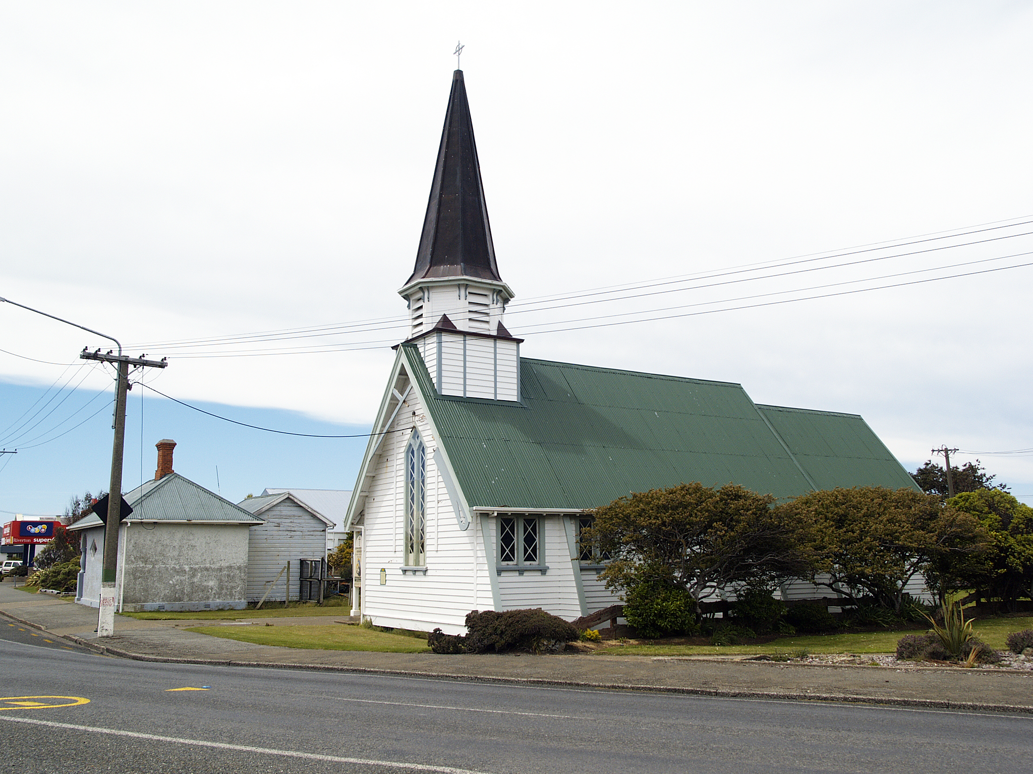 St Mary's Church, Riverton, South Island, New Zealand 173 Palmerston Street, Riverton NZ Historic Places Trust registered, list number 2541